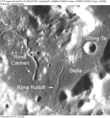 AS17-M-1220 Rima Carmen, Rima Rudolf, craters Stella and Ching-Te are IAU-approved names appearing on Topophotomap 42C3S3.